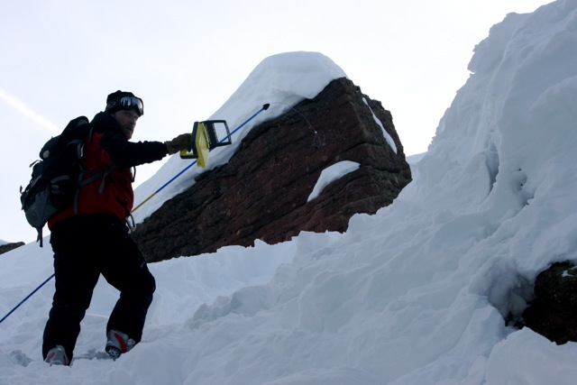 Avalanche rescue search with RECCO detector